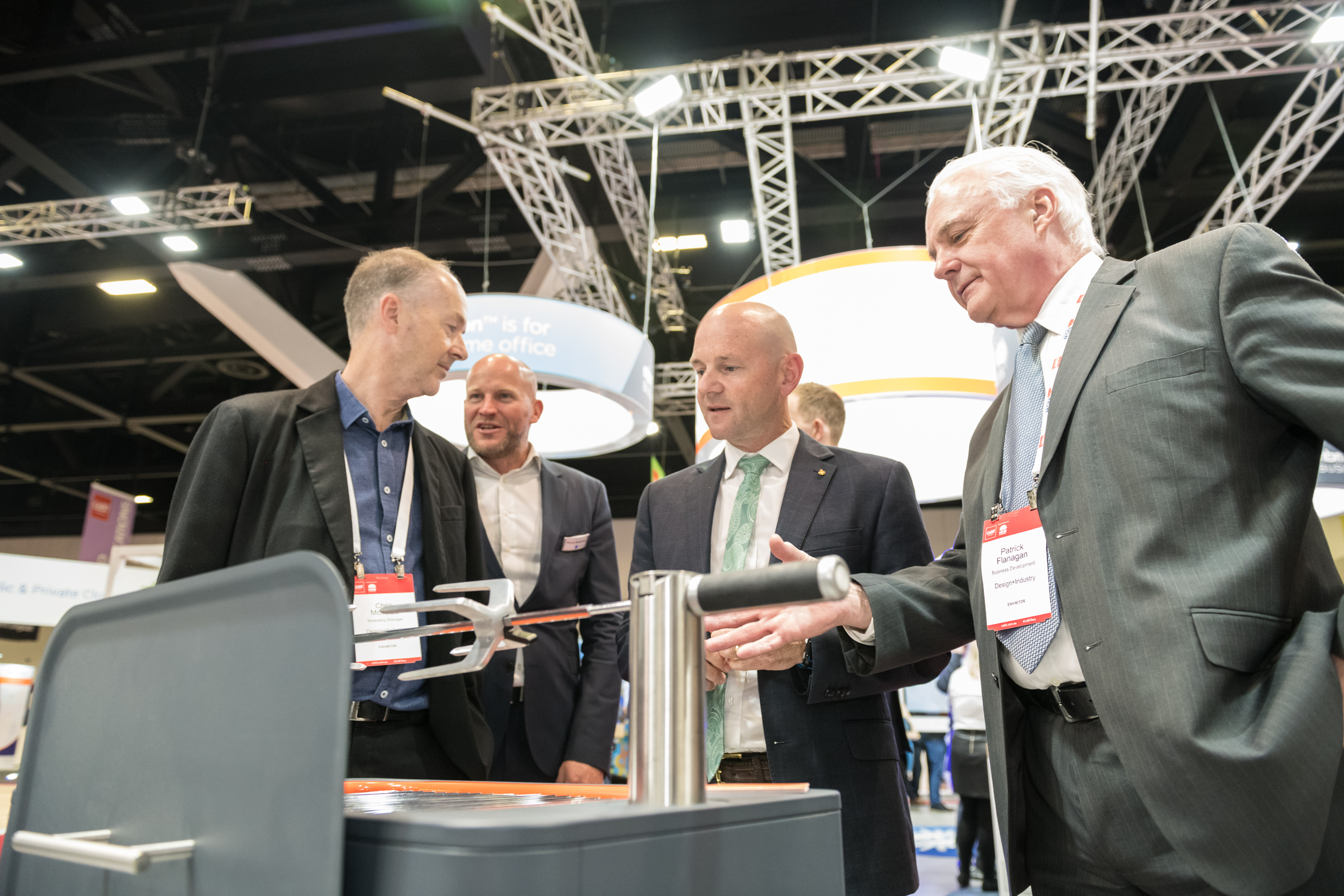 CeBIT VIP Tour Minister for Primary Industries-3175